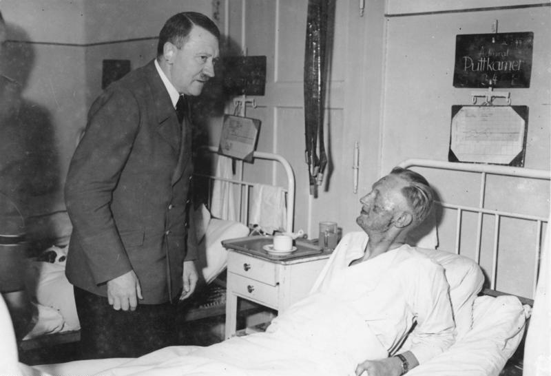 Information added by Wikimedia users.Führer Adolf Hitler visits admiral Karl-Jesco von Puttkamer in hospital after both having been wounded in the failed assassination attempt on 20 July 1944.